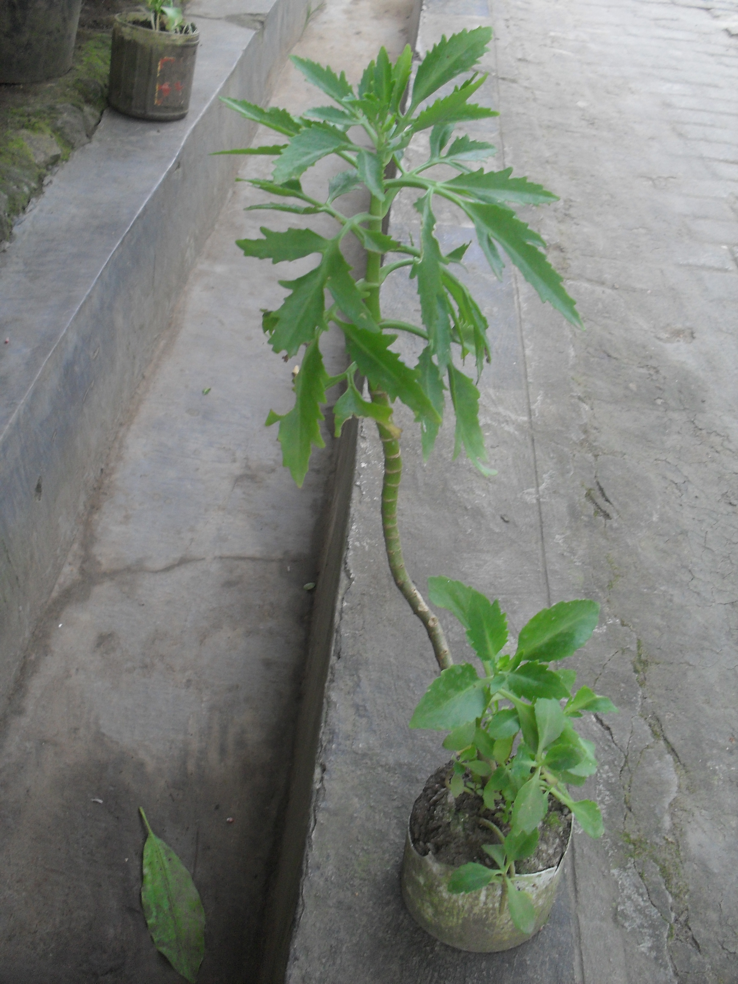 ceker pithik